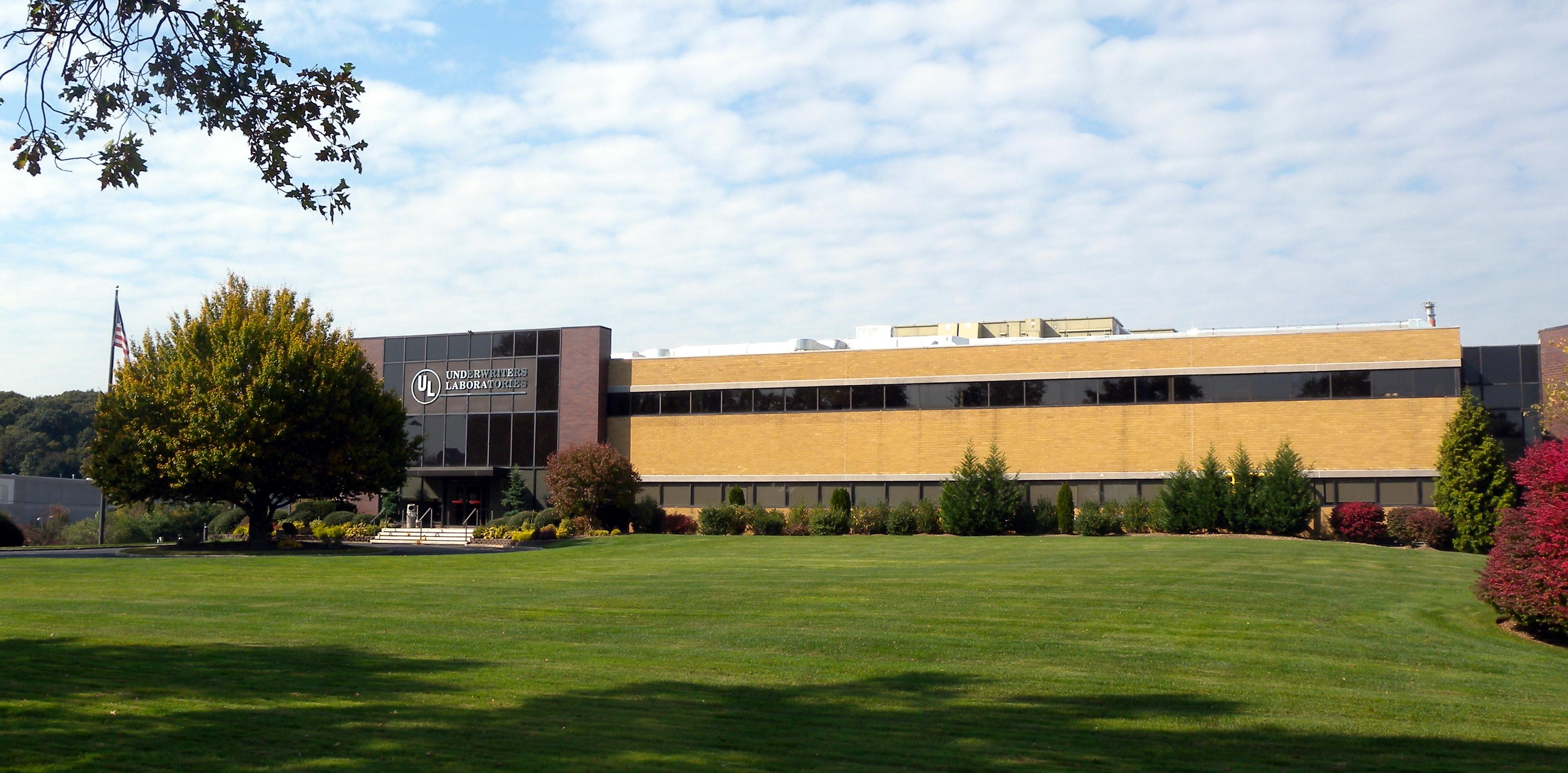 Looking west from Walt Whitman Road at Underwriters Laboratories building on a sunny midday.